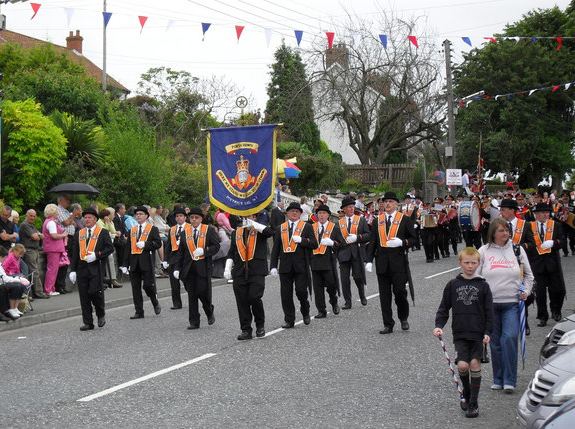 The Portadown District Loyal Orange Lodge return from the "Demonstration Field" along the Hamiltonsbawn Road in Armagh during the County Armagh 12th July parades 2009.